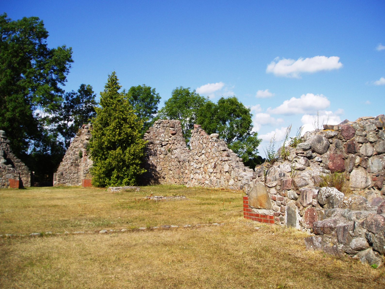 Monastery Kronobäck, Mönsterås Municipality, Sweden.